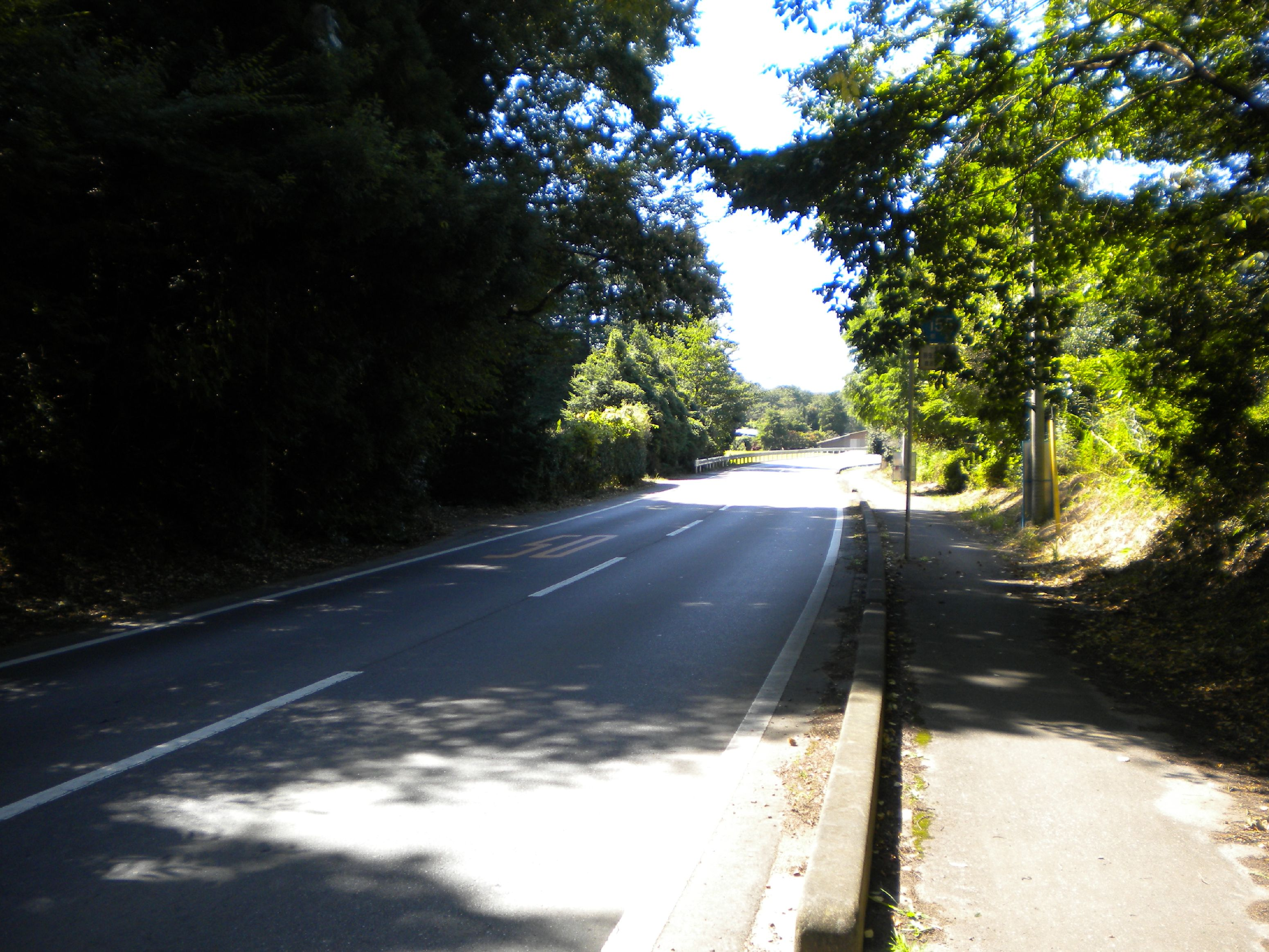 The Tochigi Prefectural Road Route 155 in Shimoishikawa, Kanuma City